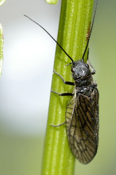 Picture taken in Commanster, Belgian High Ardennes . Species: Sialis fuliginosa